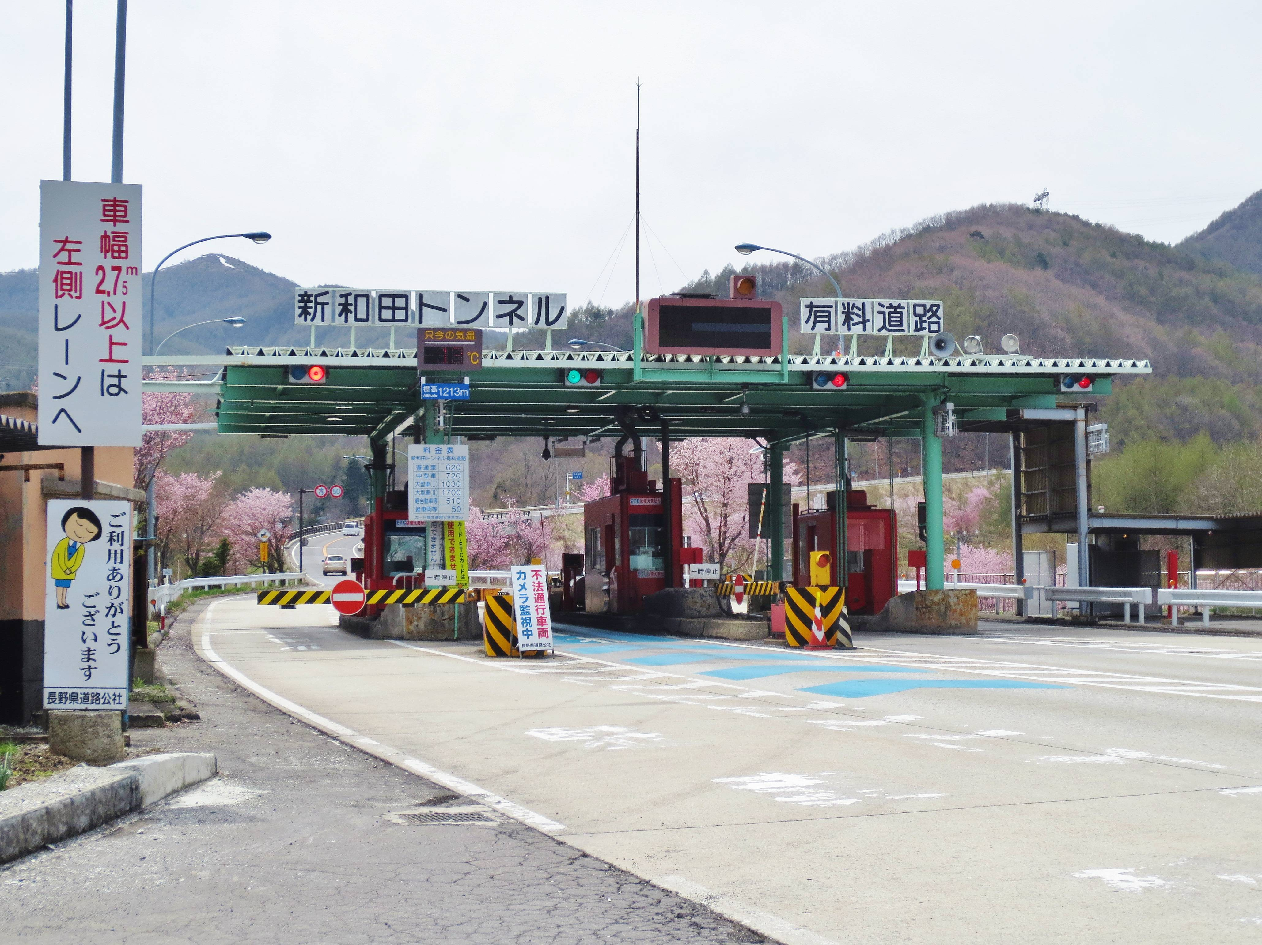 Shinwada Tunnel Toll plaza.